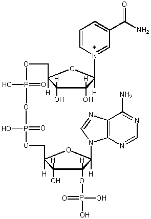 Structural drawing of NADP+